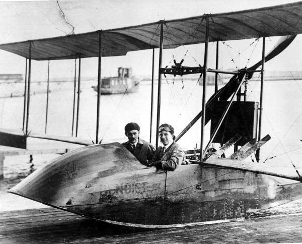 "Men sitting in the flying boat "Benoist" - Saint Petersburg, Florida" RC00228